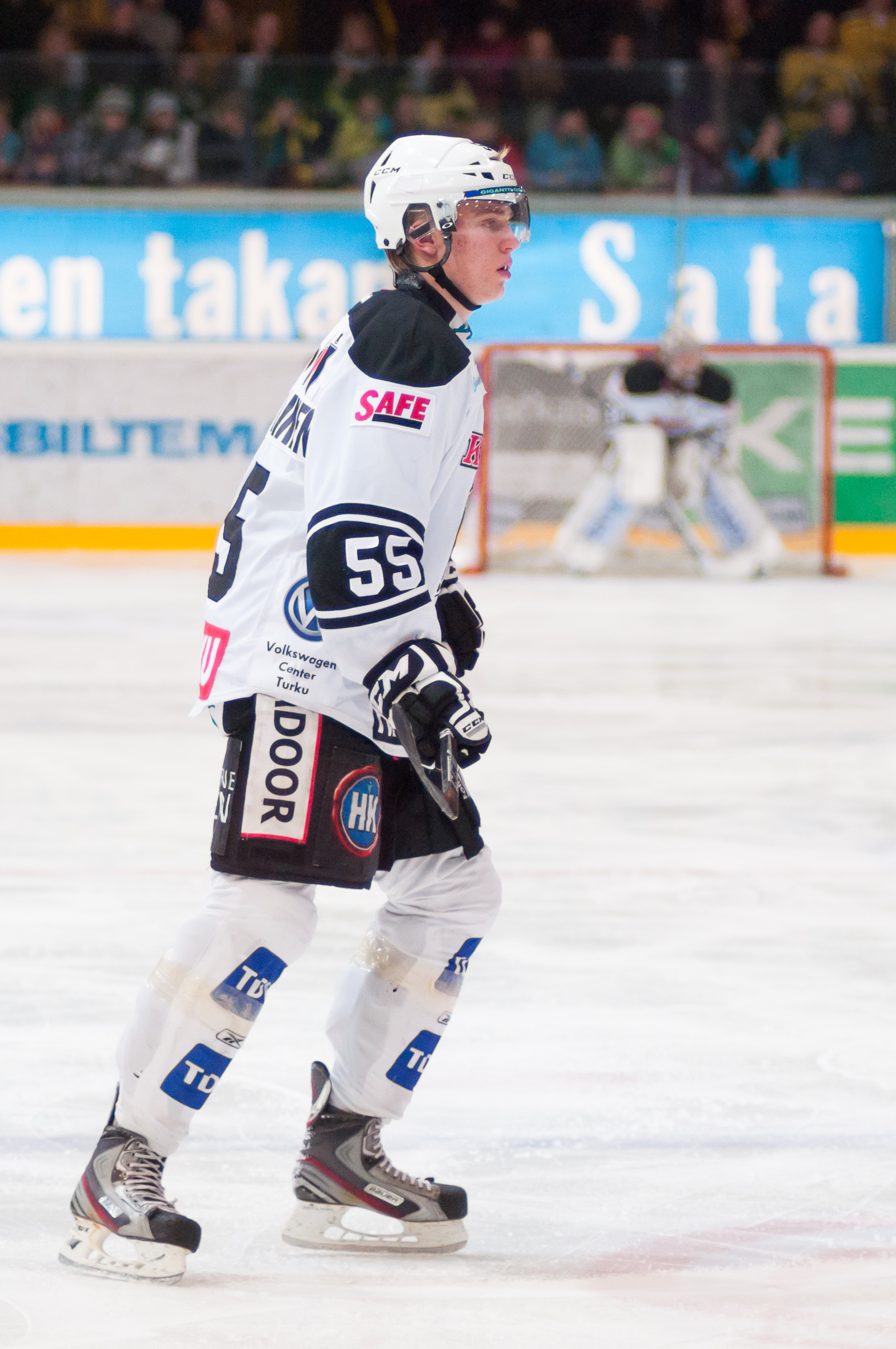 Finnish ice hockey defenseman Rasmus Ristolainen playing for Turun Palloseura (TPS) against SaiPa Lappeenranta in Lappeenranta, Finland.